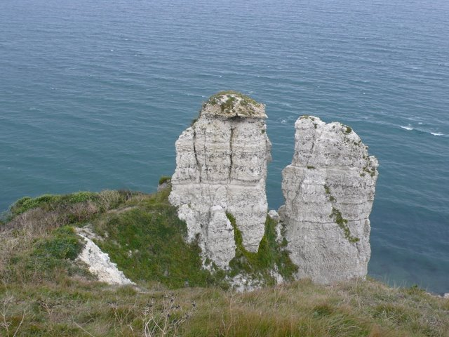 Beer Head Twin chalk stacks on top of the Head close to the coast path along the cliff top.